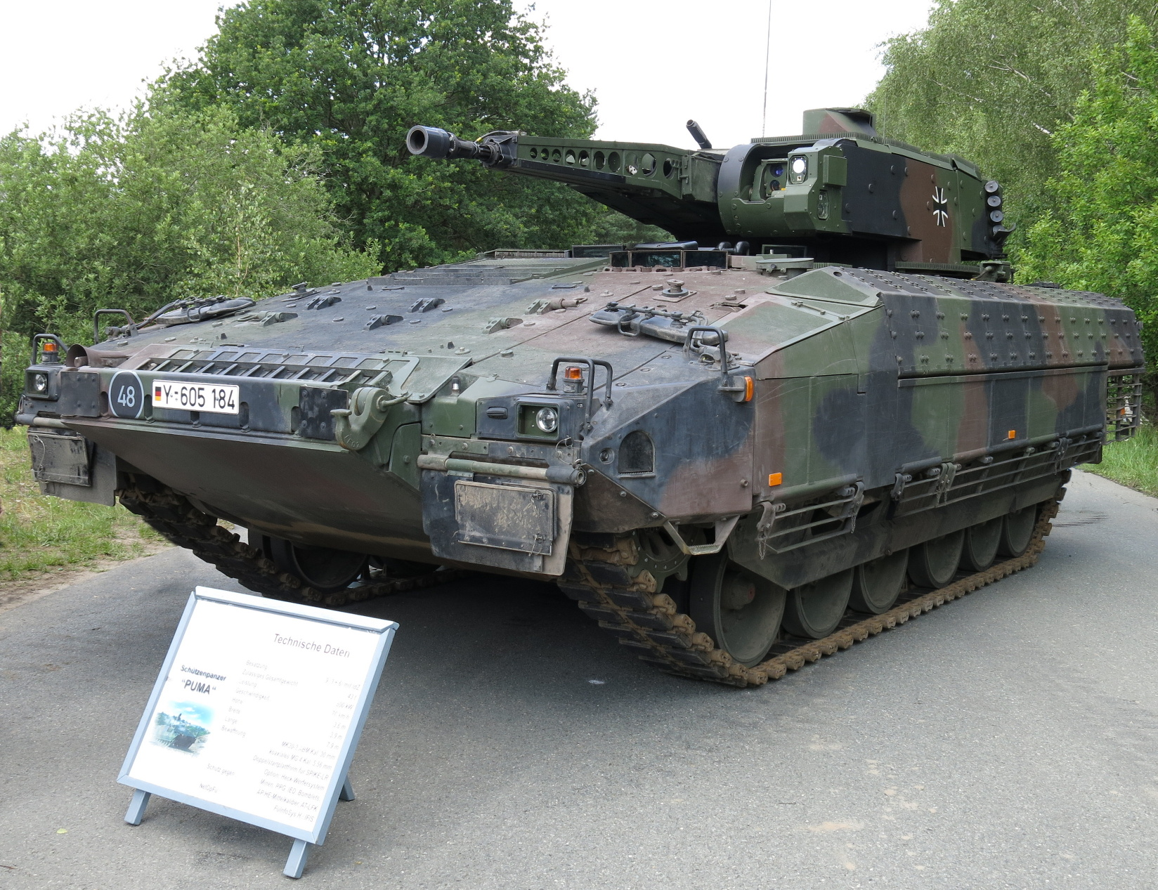 Infantry fighting vehicle Puma, one of the five pre-series. Note the lack of jammers on the PERI. Open day at German Army Training Centre, Munster 2015